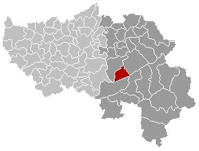 Map, municipality belgium Spa